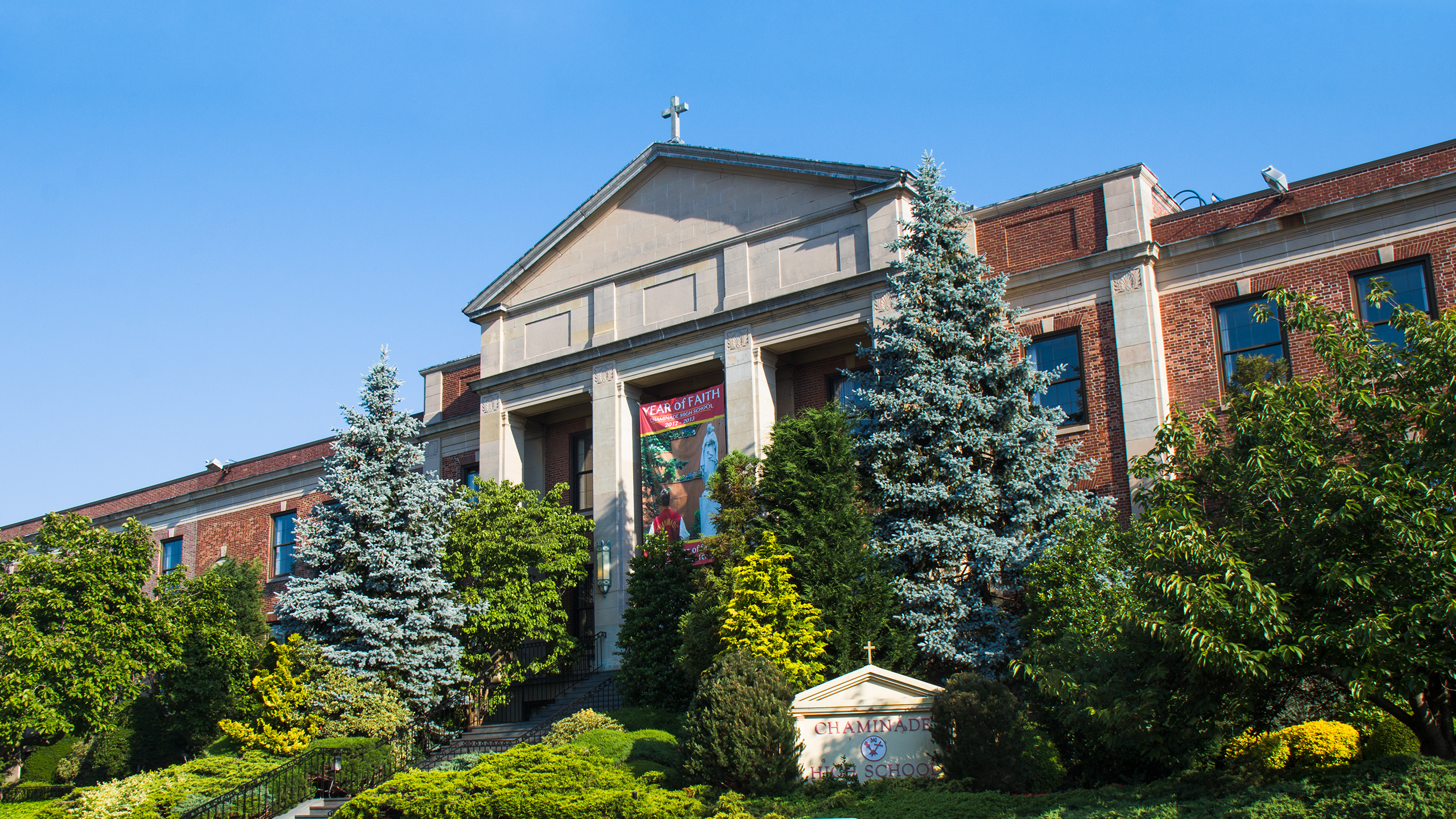 Chaminade High School building facade from Jackson Ave.